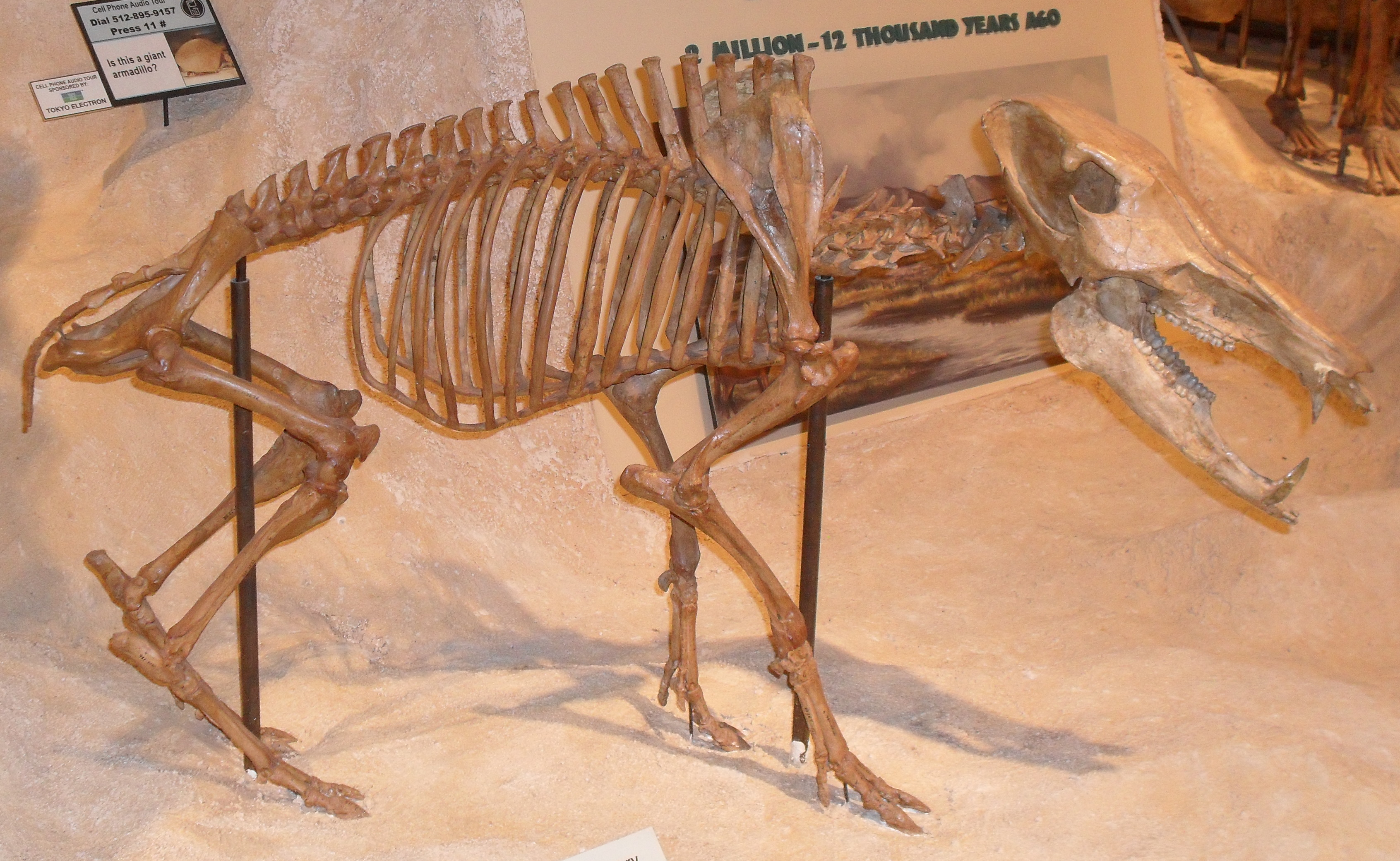 Austin Zoo